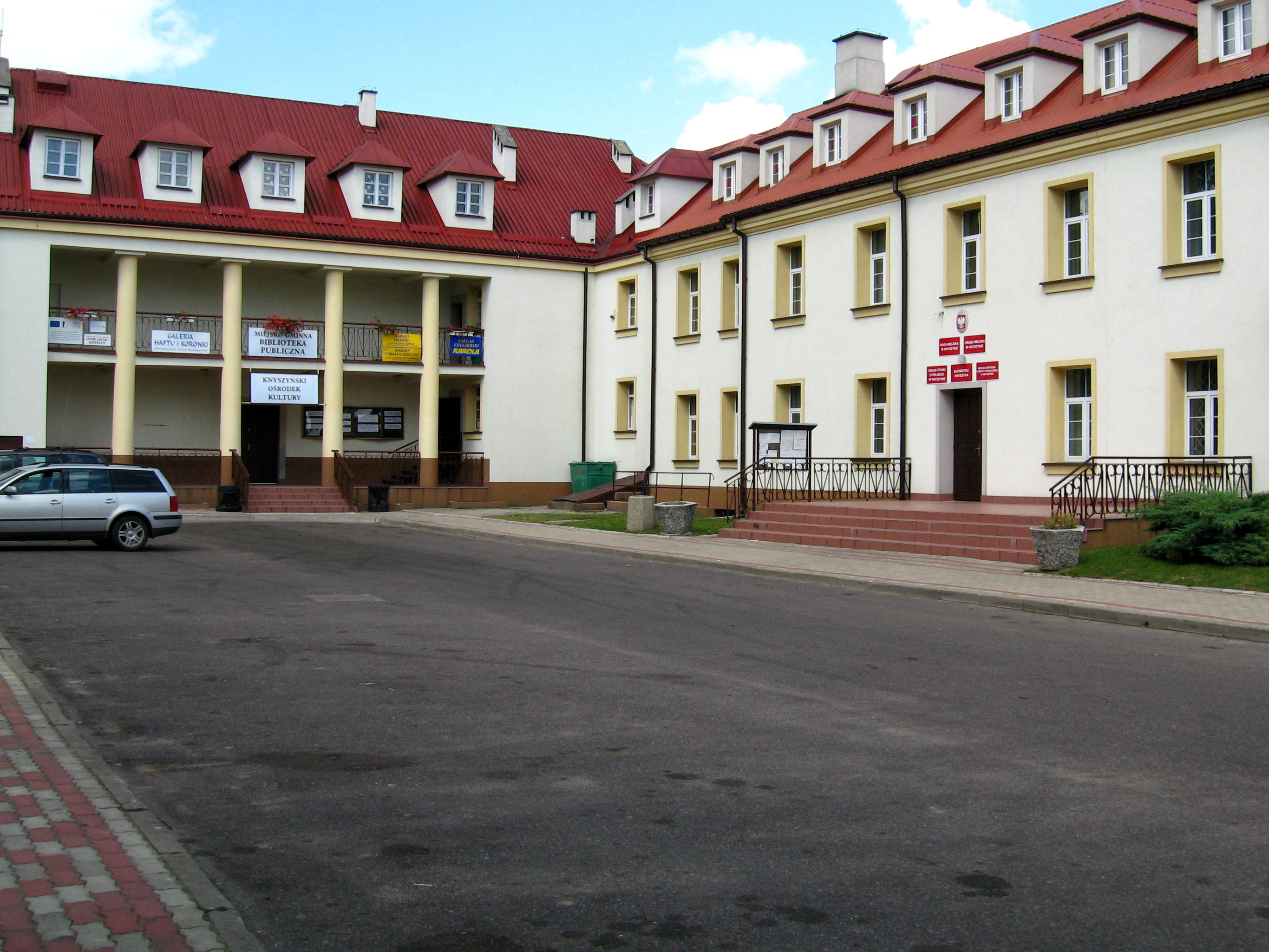 Building of Knyszyn's town hall